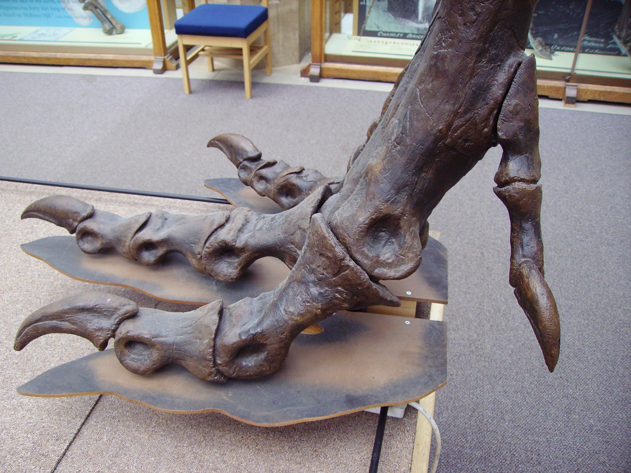 Photographer: User:Ballista